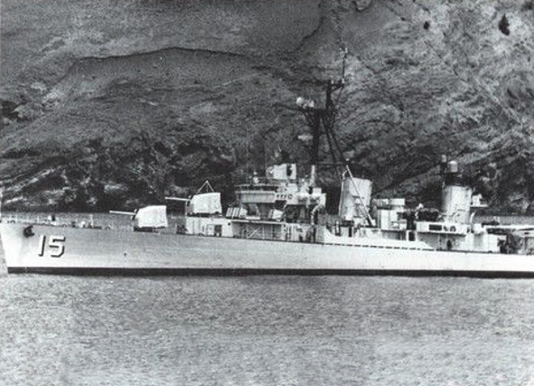 The Chilean destroyer Cochrane (D-15) off Robinson Crusoe Island, Chile, during the exercise UNITAS XV, in 1974. Cochrane was originally commissioned in the U.S. Navy as USS Rooks (DD-804).